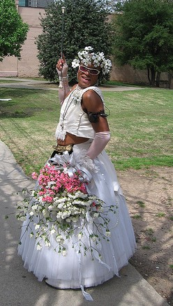 This is a photograph of cross-dressing street-performer Baton Bob.